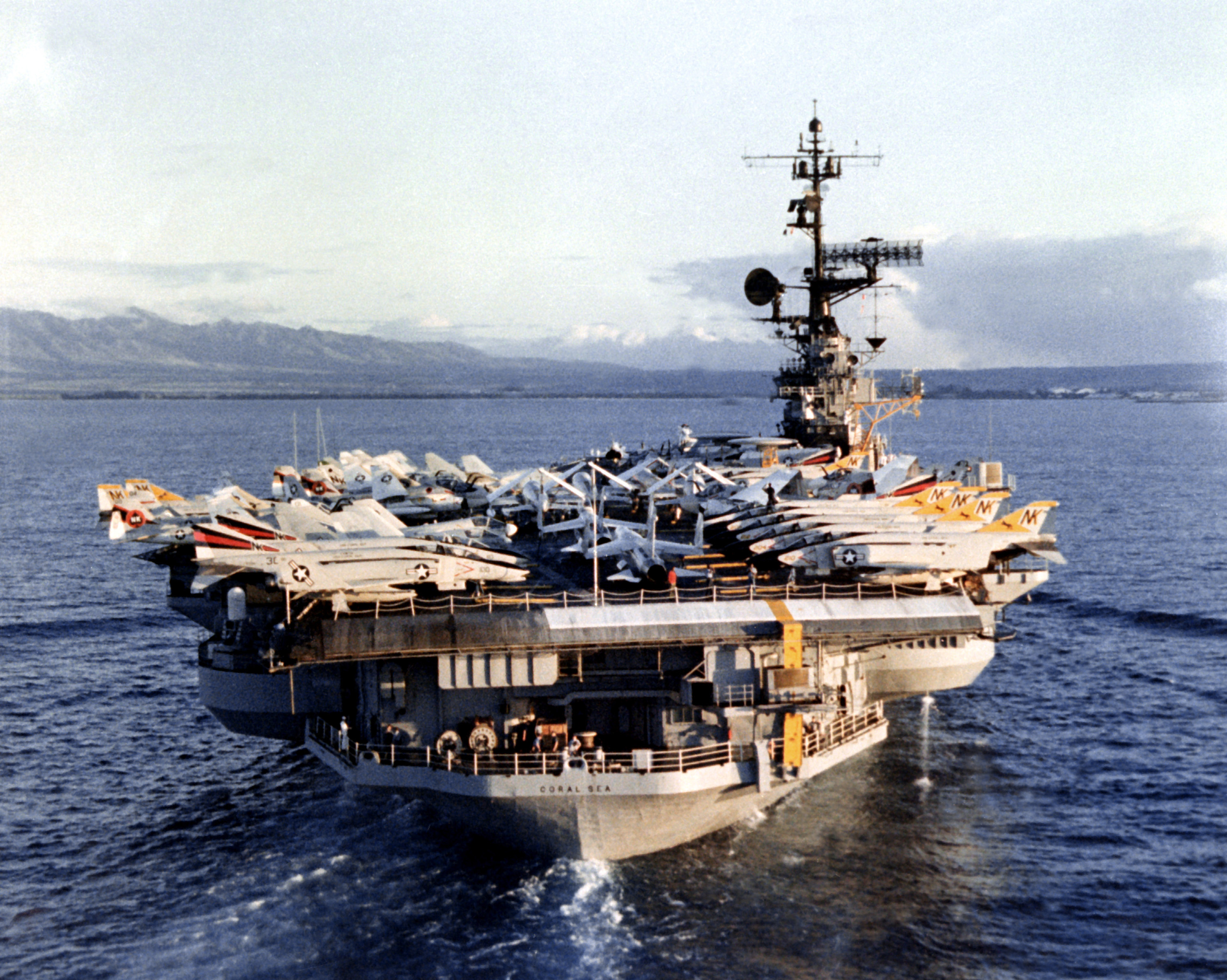 The U.S. Navy aircraft carrier USS Coral Sea (CV-43) underway approaching Naval Station, Pearl Harbor, Hawaii (USA), in 1981. The SPS-43 (right) and SPS-30 (left) radars are visible on the mast. The aircraft of Carrier Air Wing 14 (CVW-14) are parked on the flight deck. Visible are McDonnell F-4N Phantom II fighters of fighter squadrons VF-21 Free Lancers (on the right, yellow markings), and VF-154 Black Knights (on the left, striped markings), Grumman A-6E Intuder bombers of attack squadron VA-196 Main Battery (ace of spades markings), two Vought A-7E Corsair II attack planes (between the F-4s) and (at least) two more of attack squadron VA-27 Royal Maces (flail marking), and two Grumman E-2B Hawkeye AEW-aircraft of VAW-113 Black Eagles next to the island.